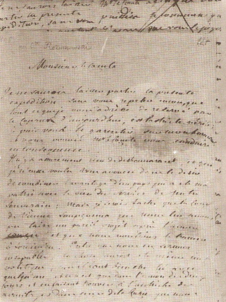 Telegram by Duke Adam Jerzy Czartoryski to Andrey Rasumowski, the Russian ambassador in Vienna, 1805